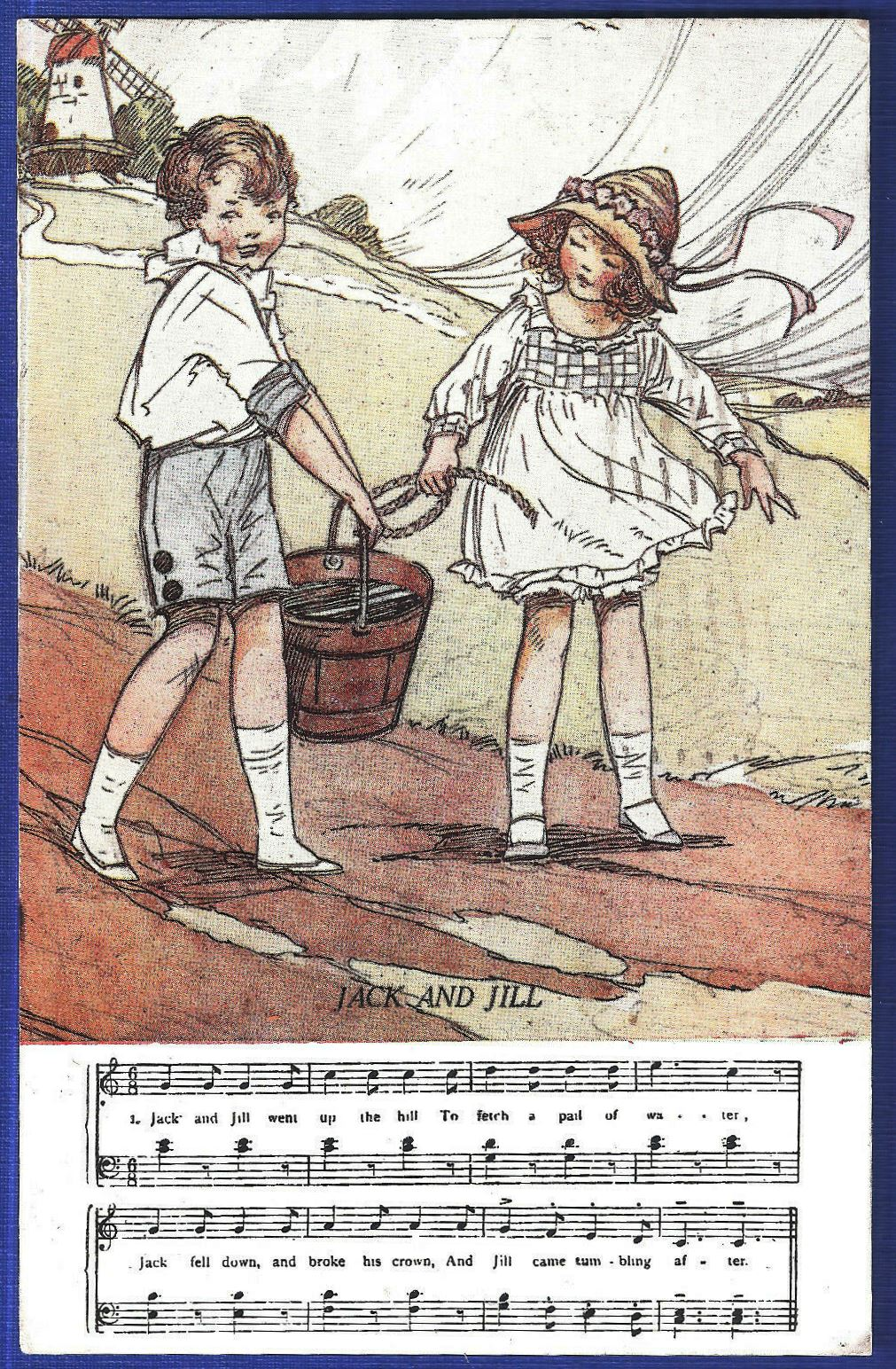 A postcard with the words and tune of "Jack and Jill", originally illustrated by Dorothy M. Wheeler in English Nursery Rhymes (1916)